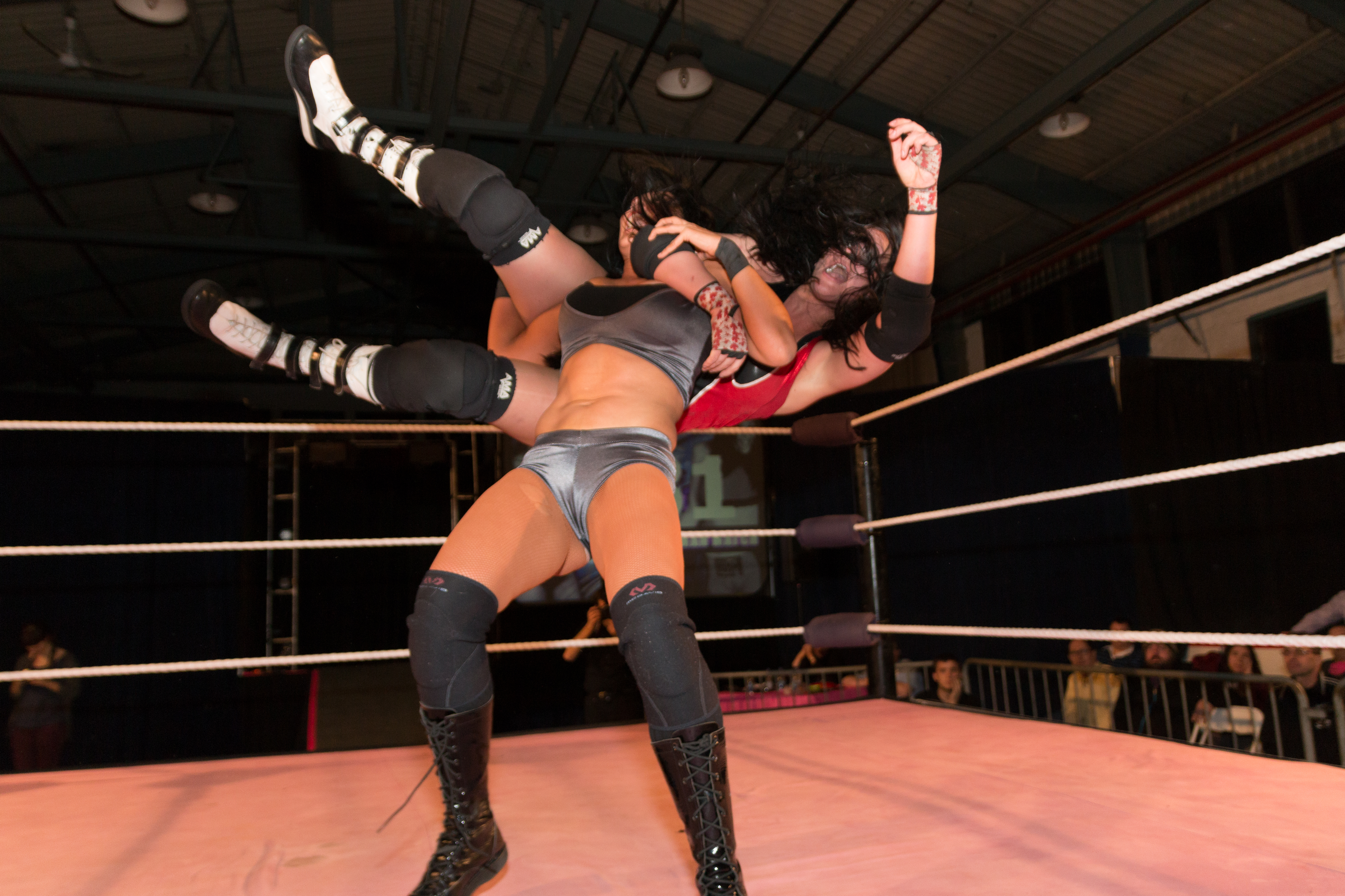 Cheerleader Melissa (in grey) performing a Samoan drop on Courtney Rust at nCw Femme Fatales XIV